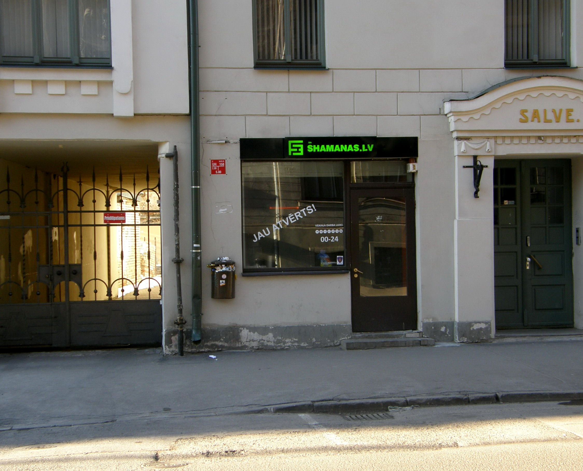 Legal highs shop in Riga, Latvia